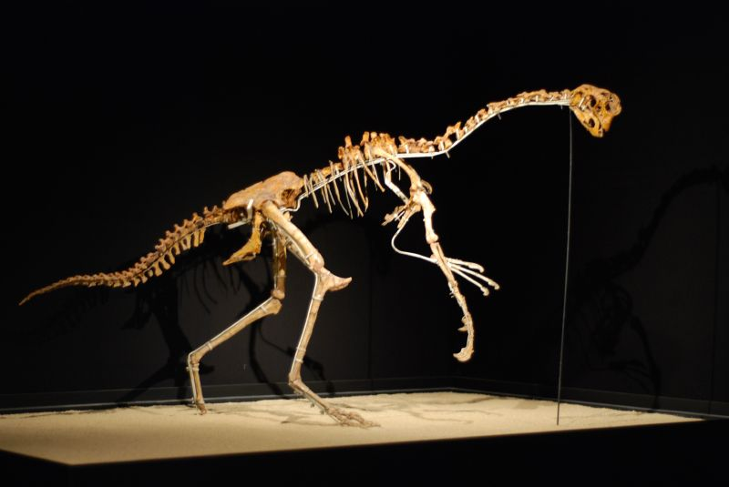 Citipati osmolskae. Late Cretaceous, Djadokhtian age 85-80 million years Dzamin Khond, Gobi South-Western, Mongolia